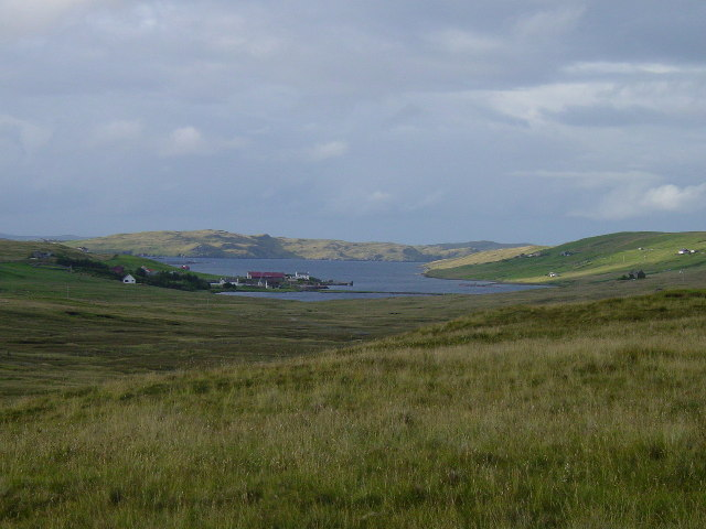 Vidlin & Vidlin Voe. Picture taken from the path leading east to Burga Water. The village in the distance is Vidlin with Vidlin Voe beyond.